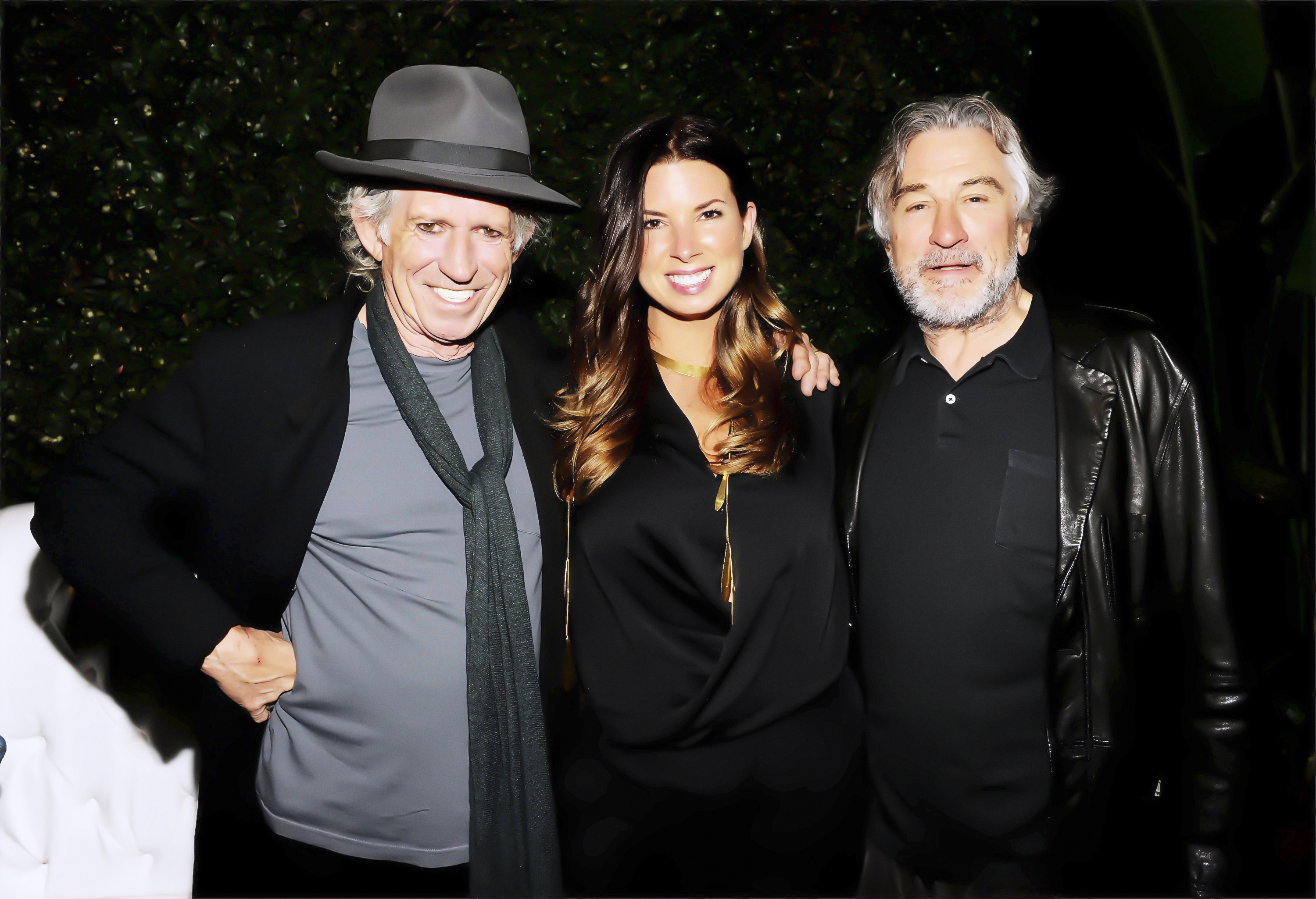 Casey Patterson, Keith Richards, and Robert De Niro